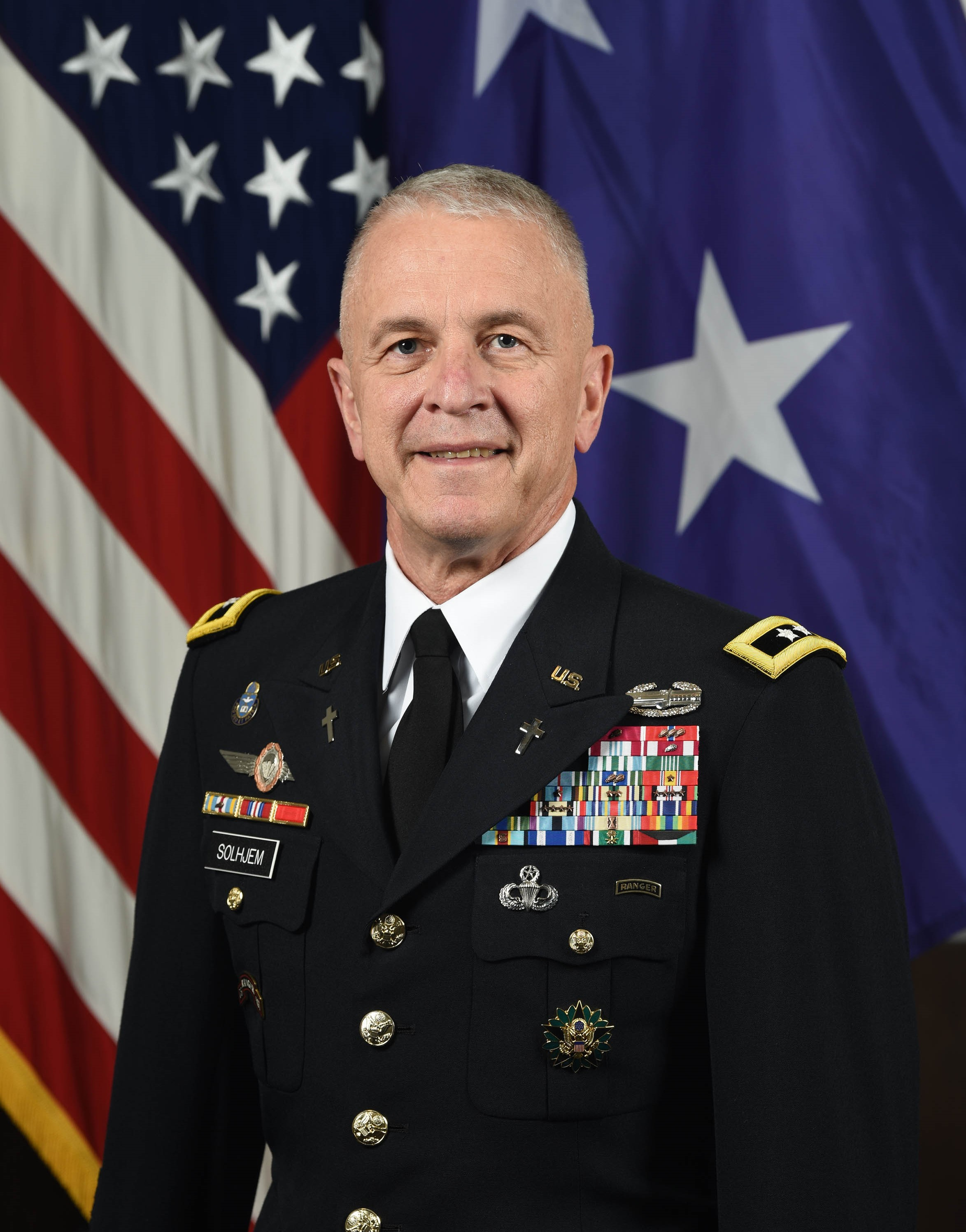 Maj. Gen. Thomas L. Solhjem, 25th Chief of Chaplains